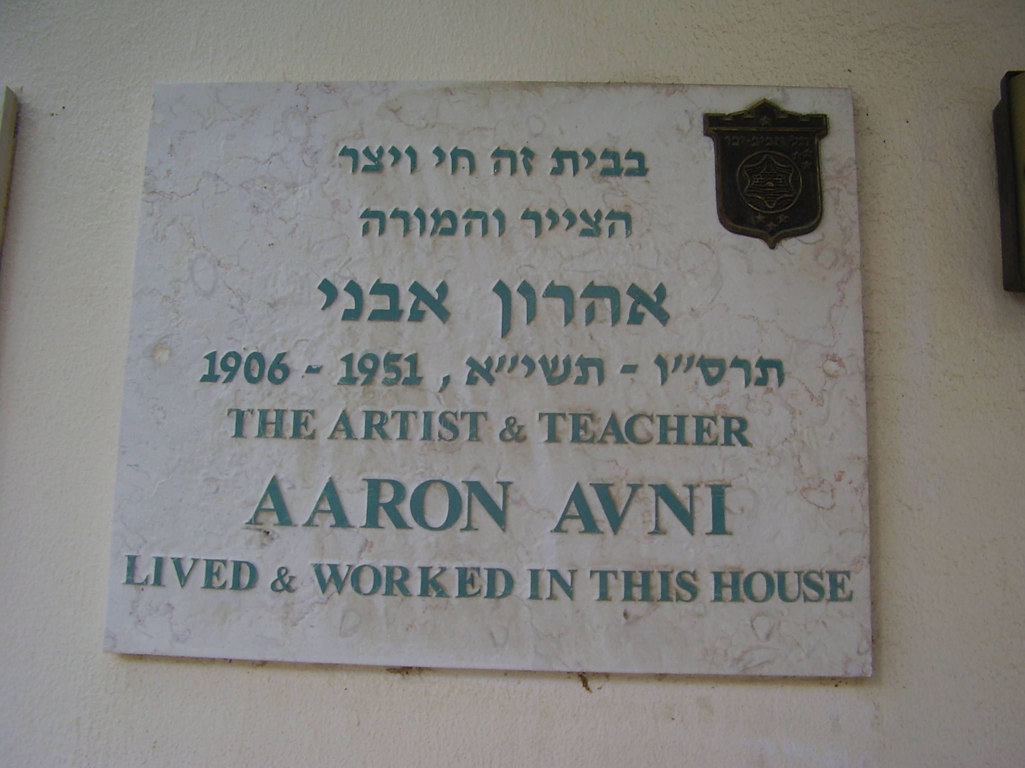 memorial plaque on the house of the painter aaron avni in tel aviv לוחית זיכרון על ביתו של הצייר אהרוטן אבני ברח' חיסין 21 בתל אביב